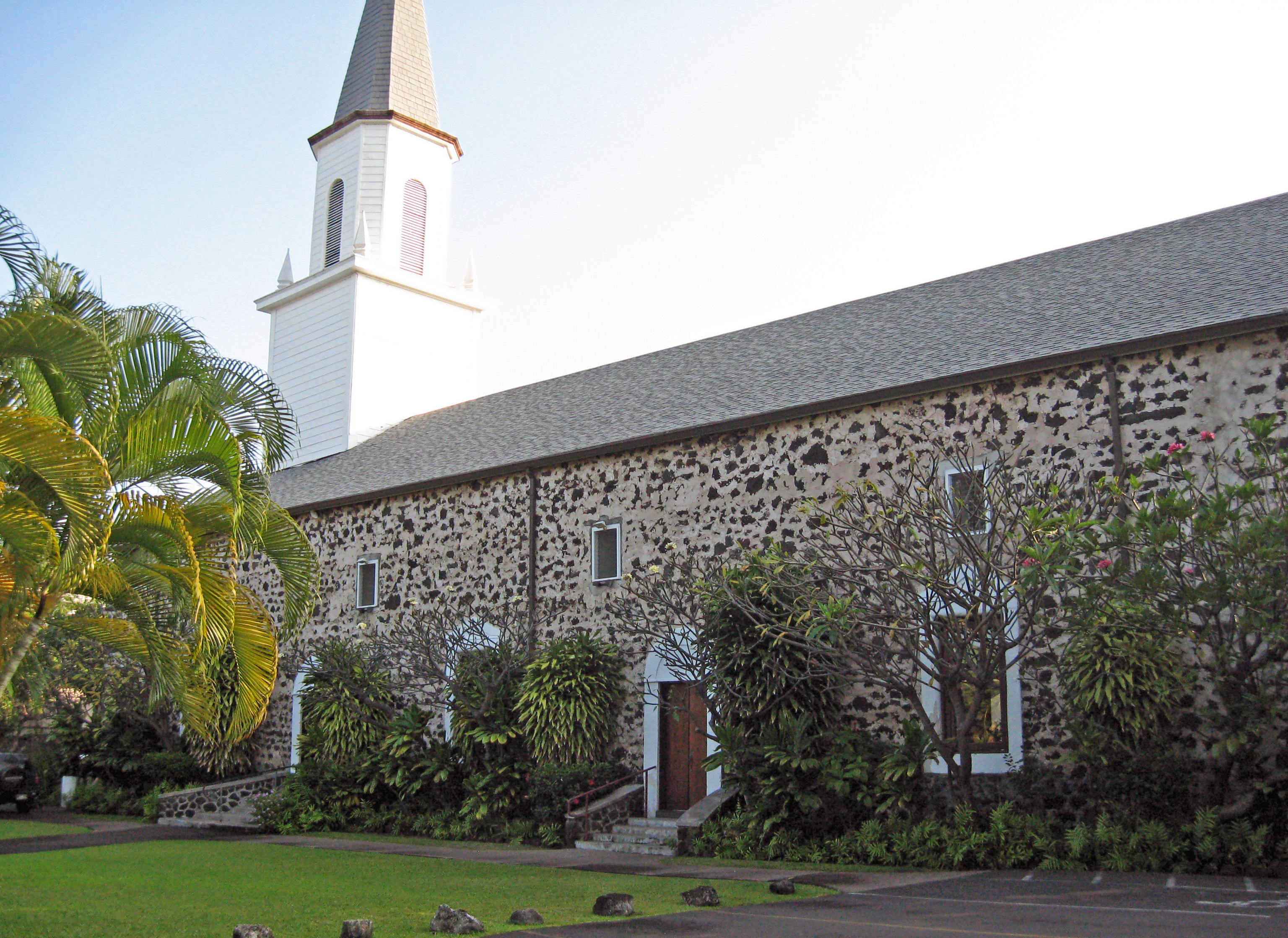 Moku'aikaua Church in Kailua-Kona, is the oldest Christian Church in Hawaii